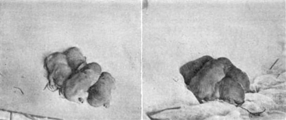 Thomomys bulbivorus young